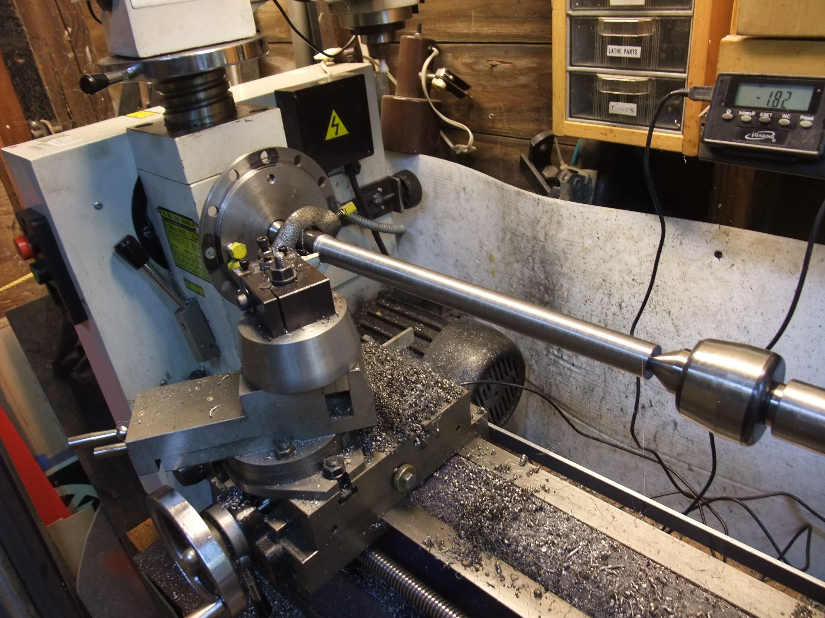 Example of turning a bar between centers with a lathe.